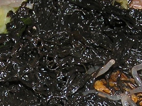 Faat choy, a type of food